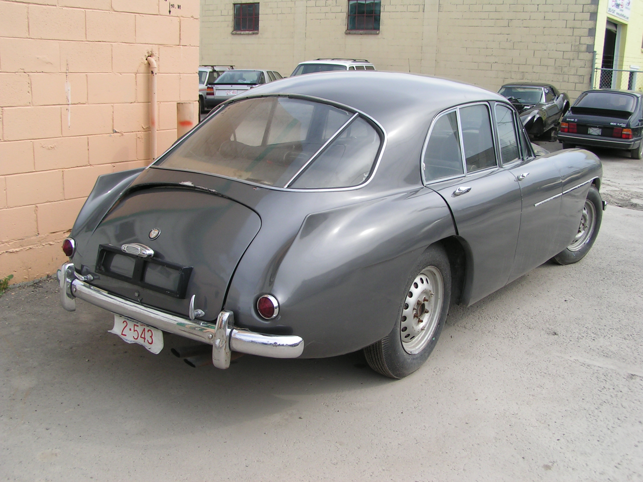 A rare car - 1 of 265 made and Bristol's only four door. Aluminum bodywork powered by a 2.0L inline six engine (based on a pre-war BMW design).